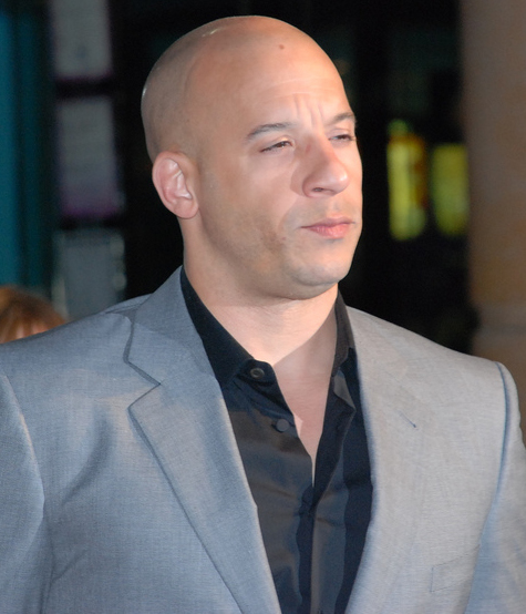 Vin Diesel at the Fast & Furious premiere at Leicester Square.